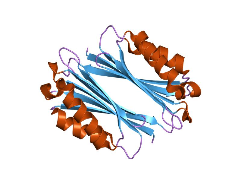 Cartoon representation of the molecular structure of protein registered with 1tlu code.